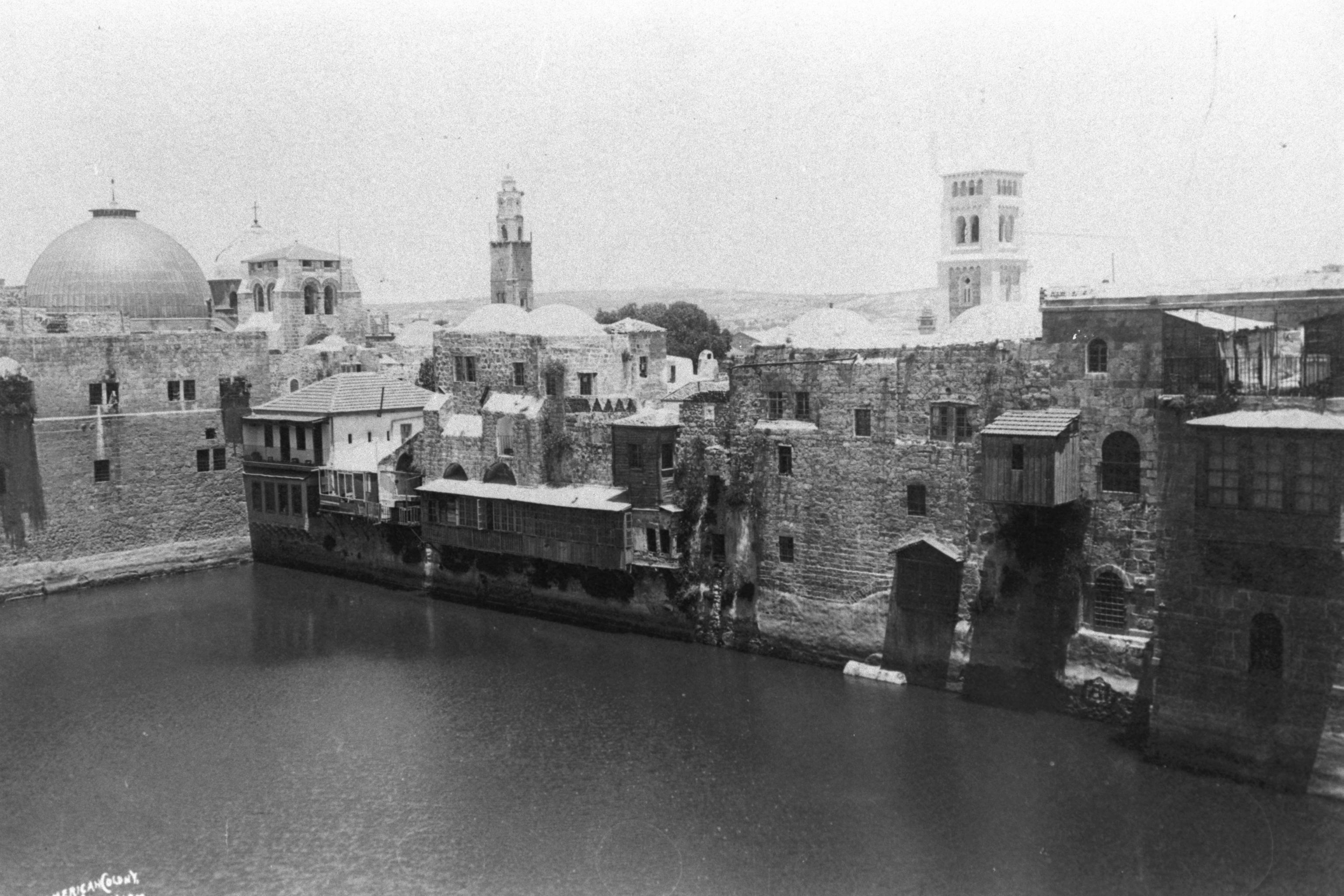 VIEW OF HIZKIYAHU'S POOL IN THE OLD CITY OF JERUSALEM DURING THE OTTOMAN ERA. צילום כללי של בריכת חזקיהו בעיר העתיקה בירושלים, בתקופה העתומנית בא"י.